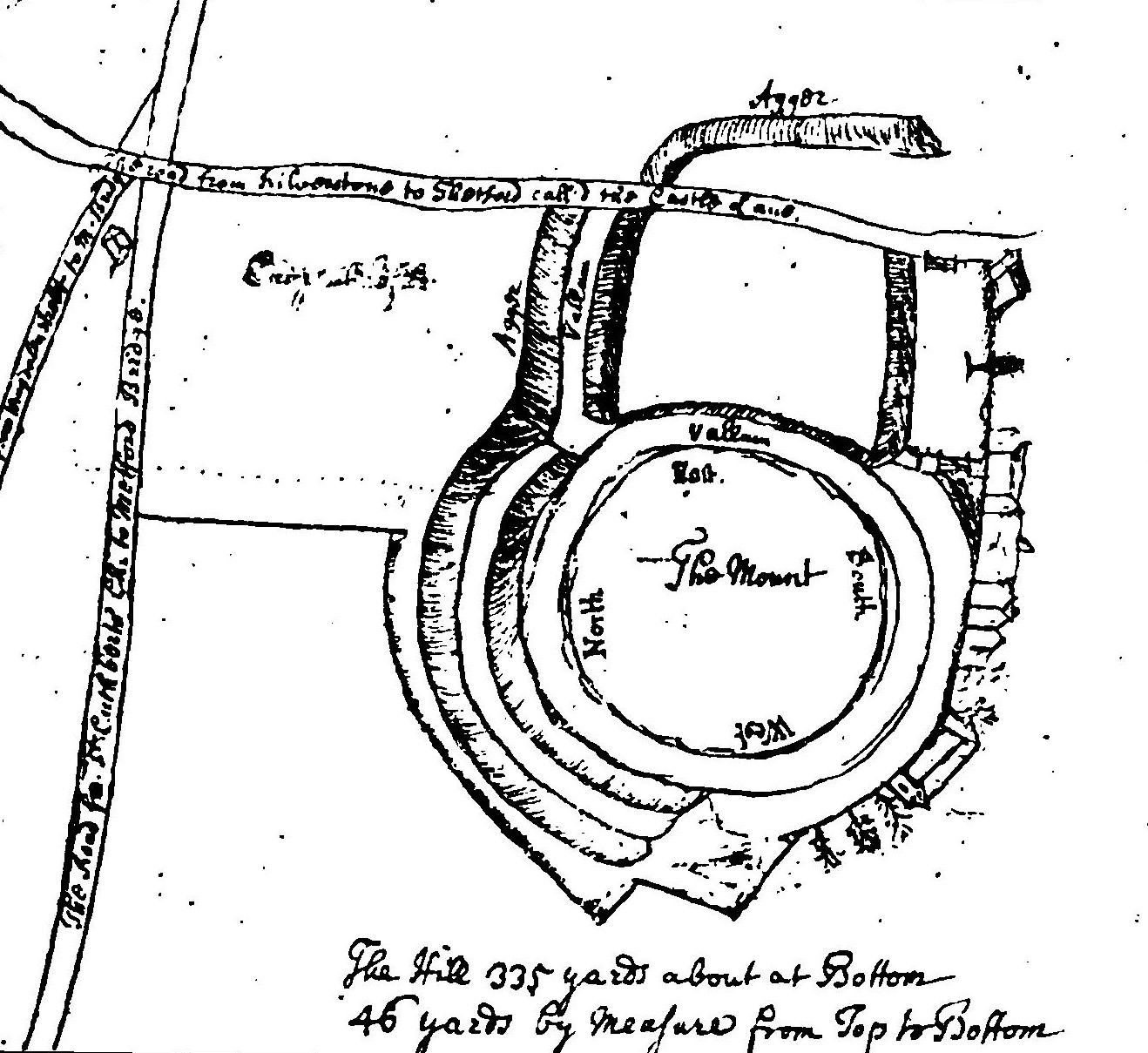 Sketch of Thetford Castle, around 1740